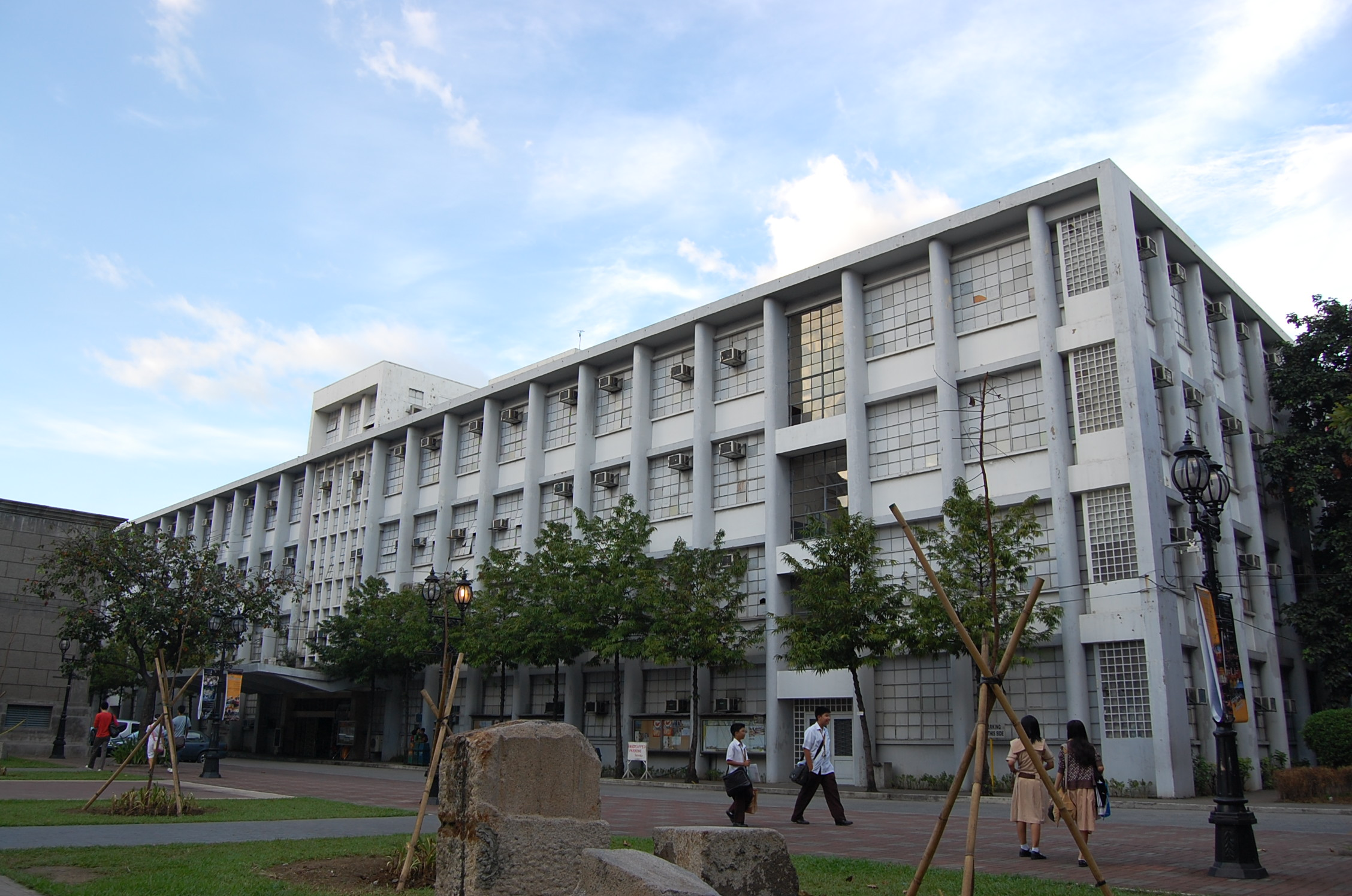 University of Santo Tomas' St. Raymund de Peñafort Building